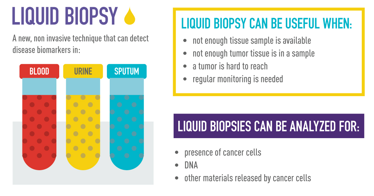 بافت برداری مایع روشی نوین و غیر تهاجمی برای تخشیص بیومارکر های سرطان است